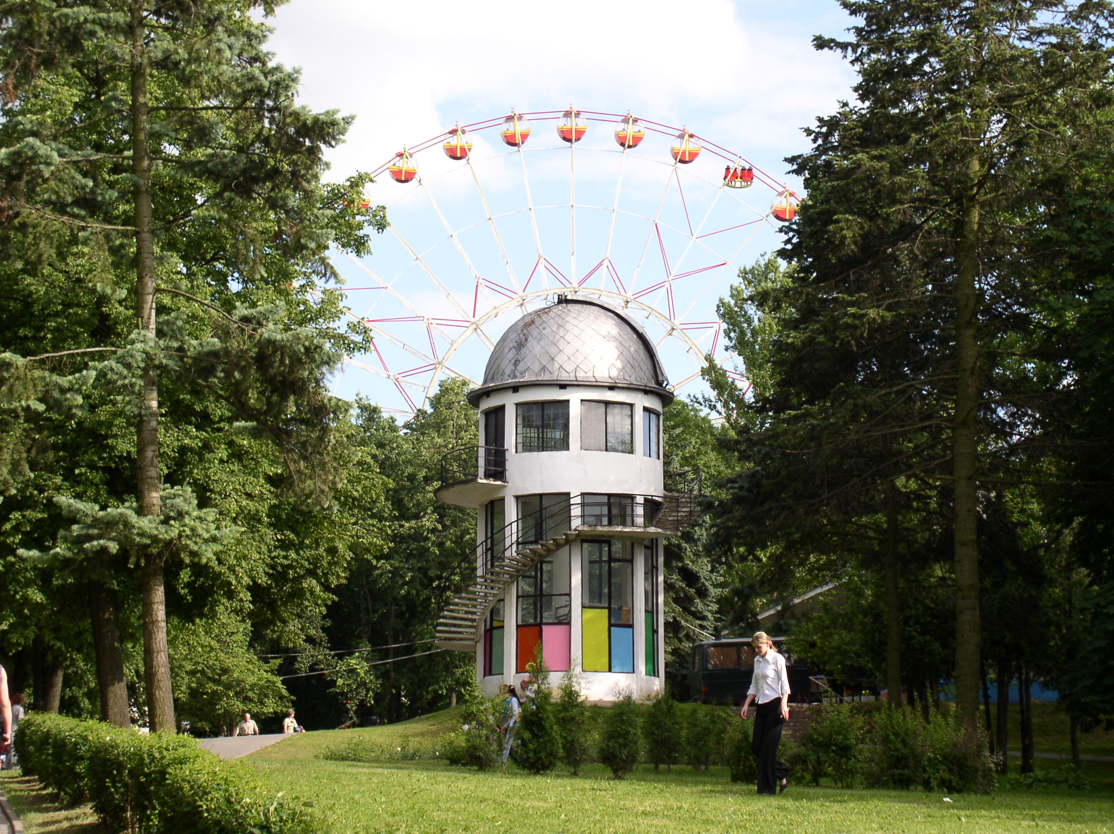 Educational Observatory in Central Children Park named after Maxim Gorky, Minsk, Belarus.